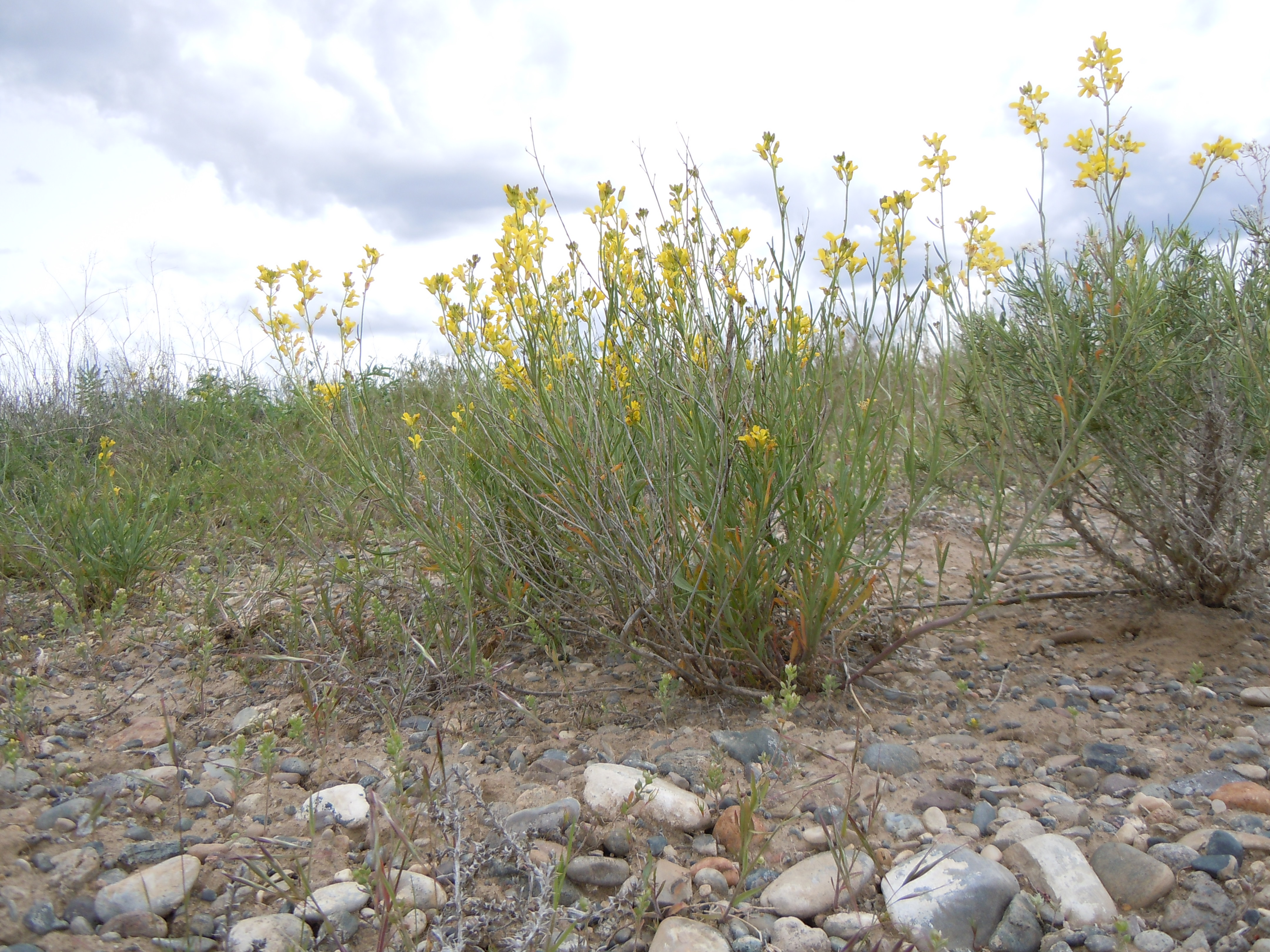 The native perennial mustard is fairly common in the low elevation sagebrush steppe in this area and sometimes forms dense stands.